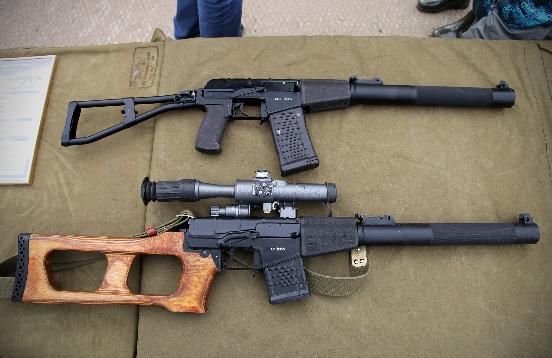 AS Val and VSS Vintorez